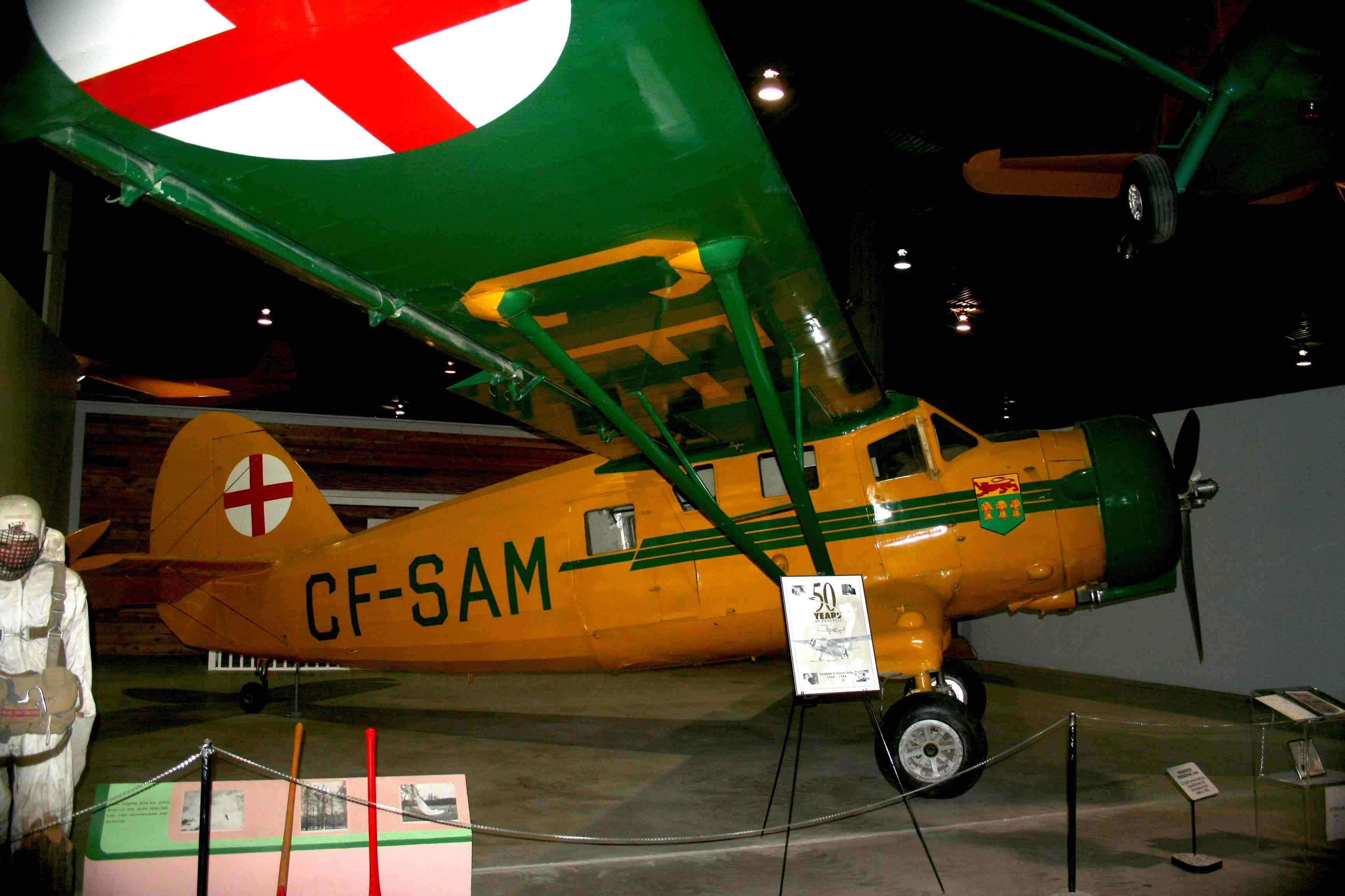 Noorduyn Norseman bush plane at the Western Development Museum, Moose Jaw, Saskatchewan